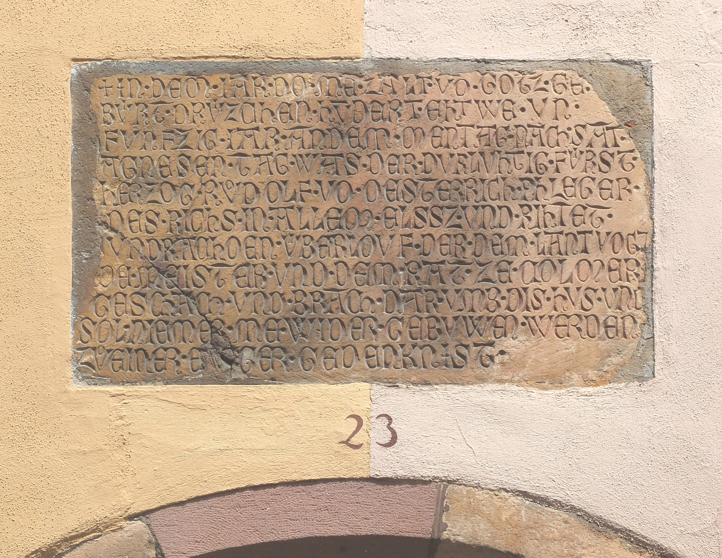 Inscription plate in the facade between "Restaurant Chez Hansi" and "Bistrot du Koïfhus", 23 Rue des Marchands ("Maison zum Oesterreich"), Colmar, France. The text refers to a preceding building, demolished in 1358.